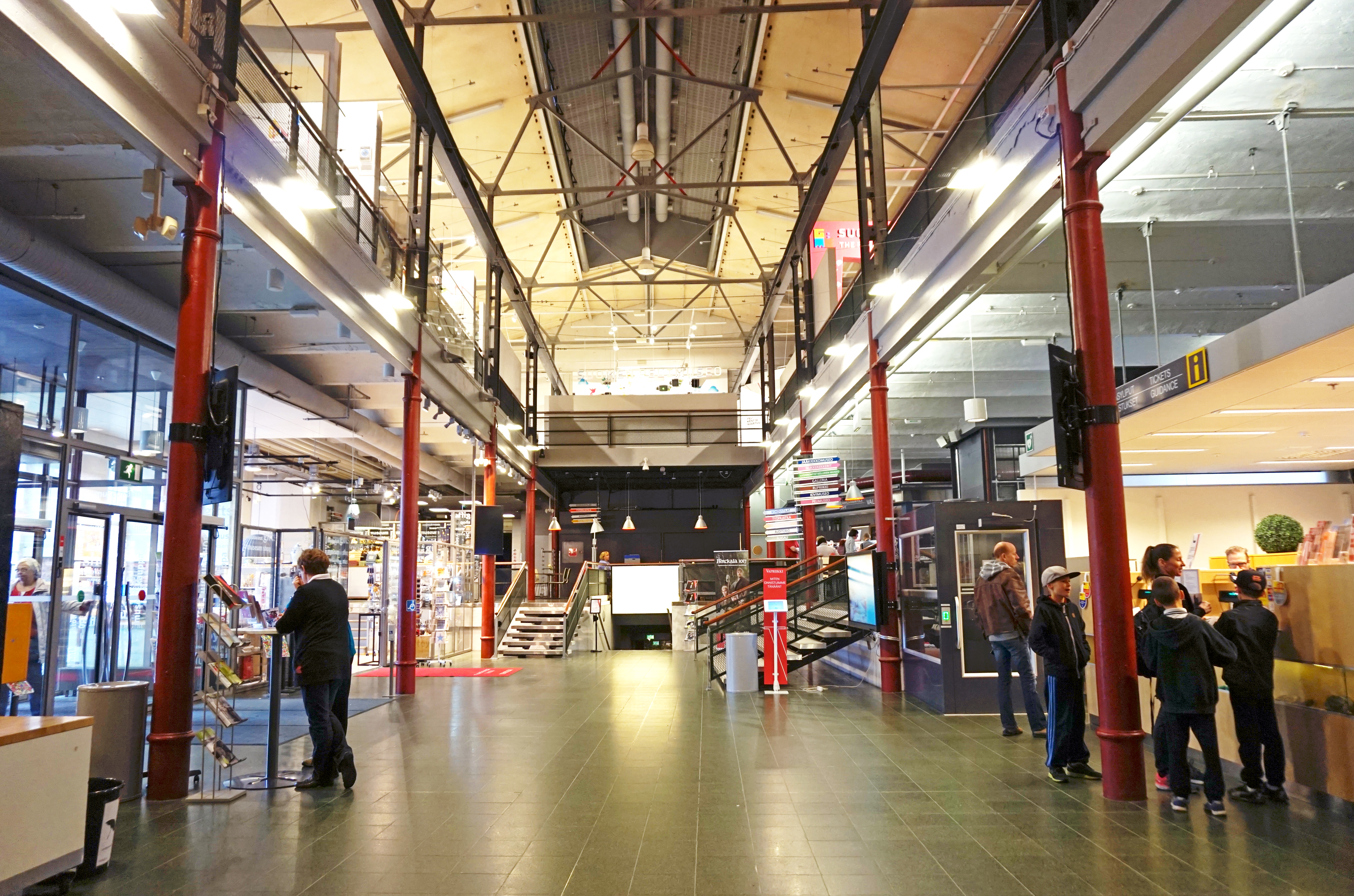 Vapriikki Museum Center, Tampere.